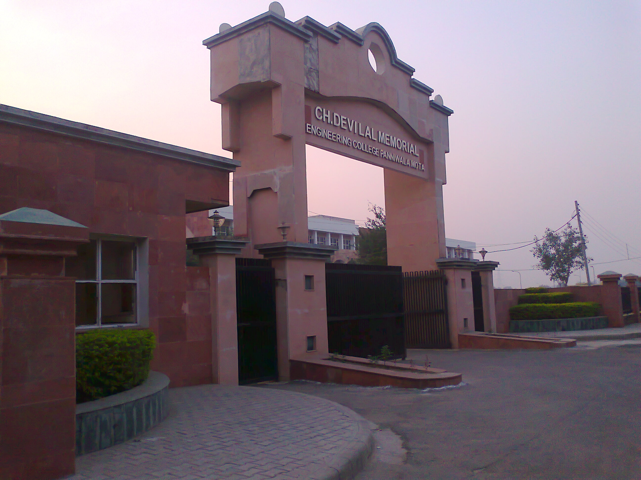 this is the main view of cdlmgec college